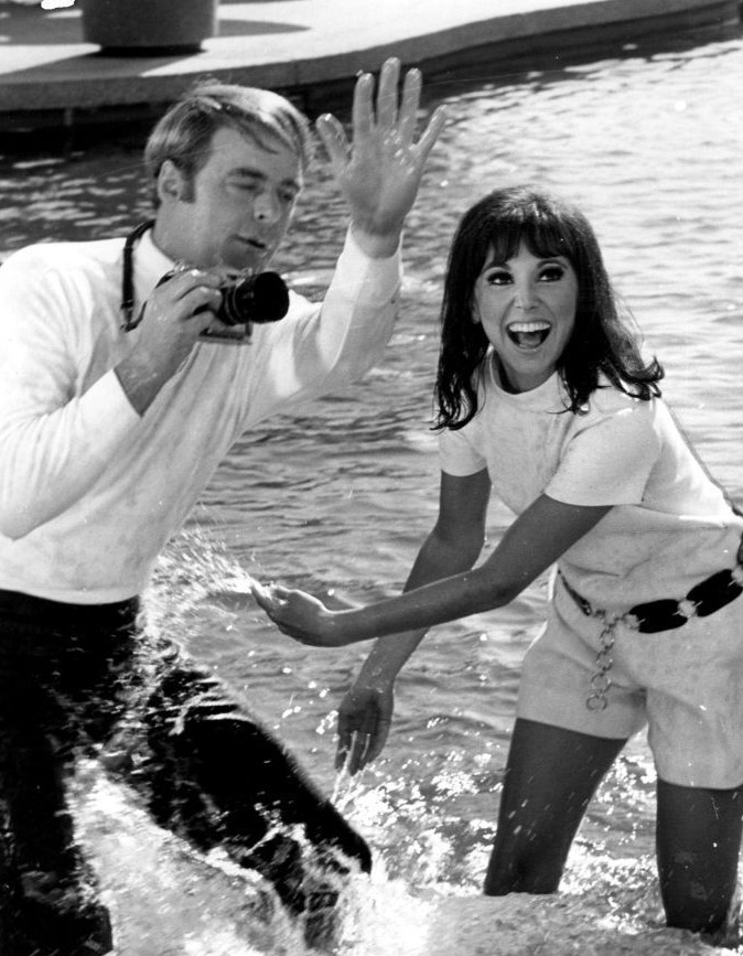 Photo of Garry Marshall as a fashion photographer and Marlo Thomas as Ann-Marie from the television program That Girl.